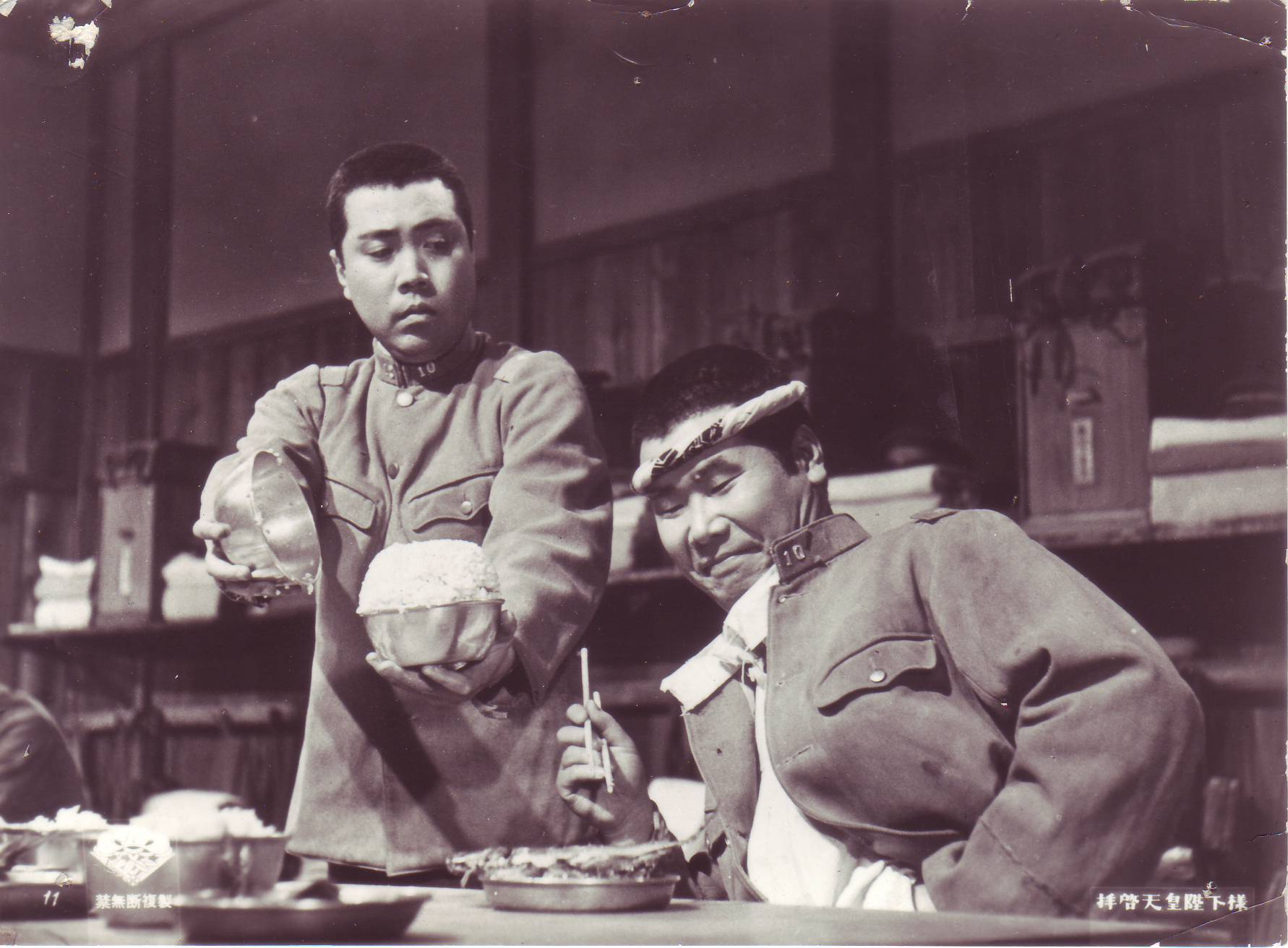 Kiyoshi Atsumi and Kanbi Fujiyama (left). Studio Still of the 1963 Japanese film "Haikei Tenno Heika Sama (from Emperor Hirohito)" (Shochiku Co., Ltd.).